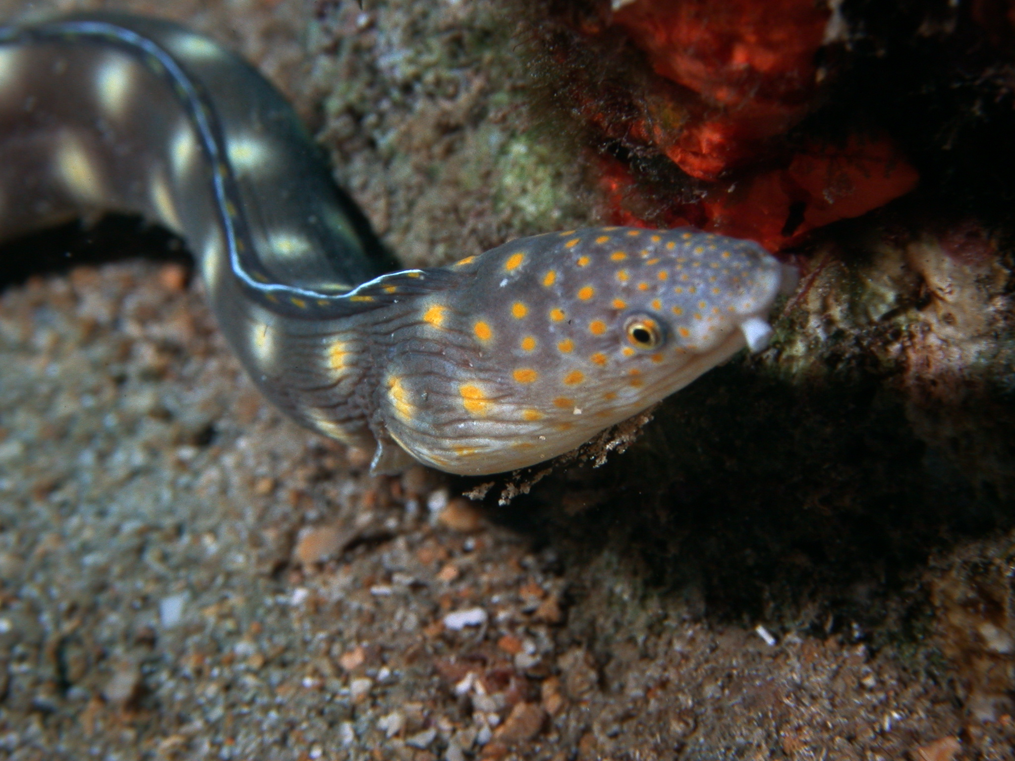 Myrichthys breviceps